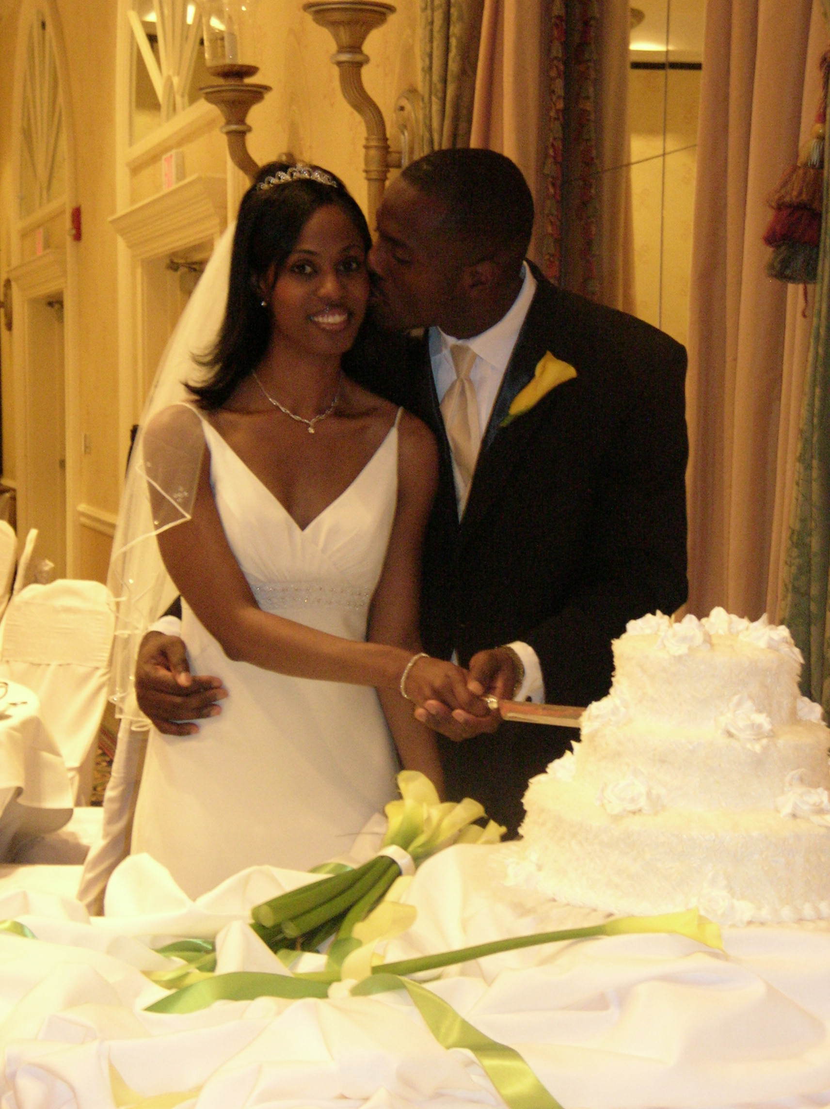 I created the picture. It has no copyright. It is not available online. It has no URL.